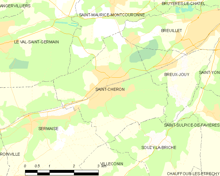 Map of French municipality Saint-Chéron